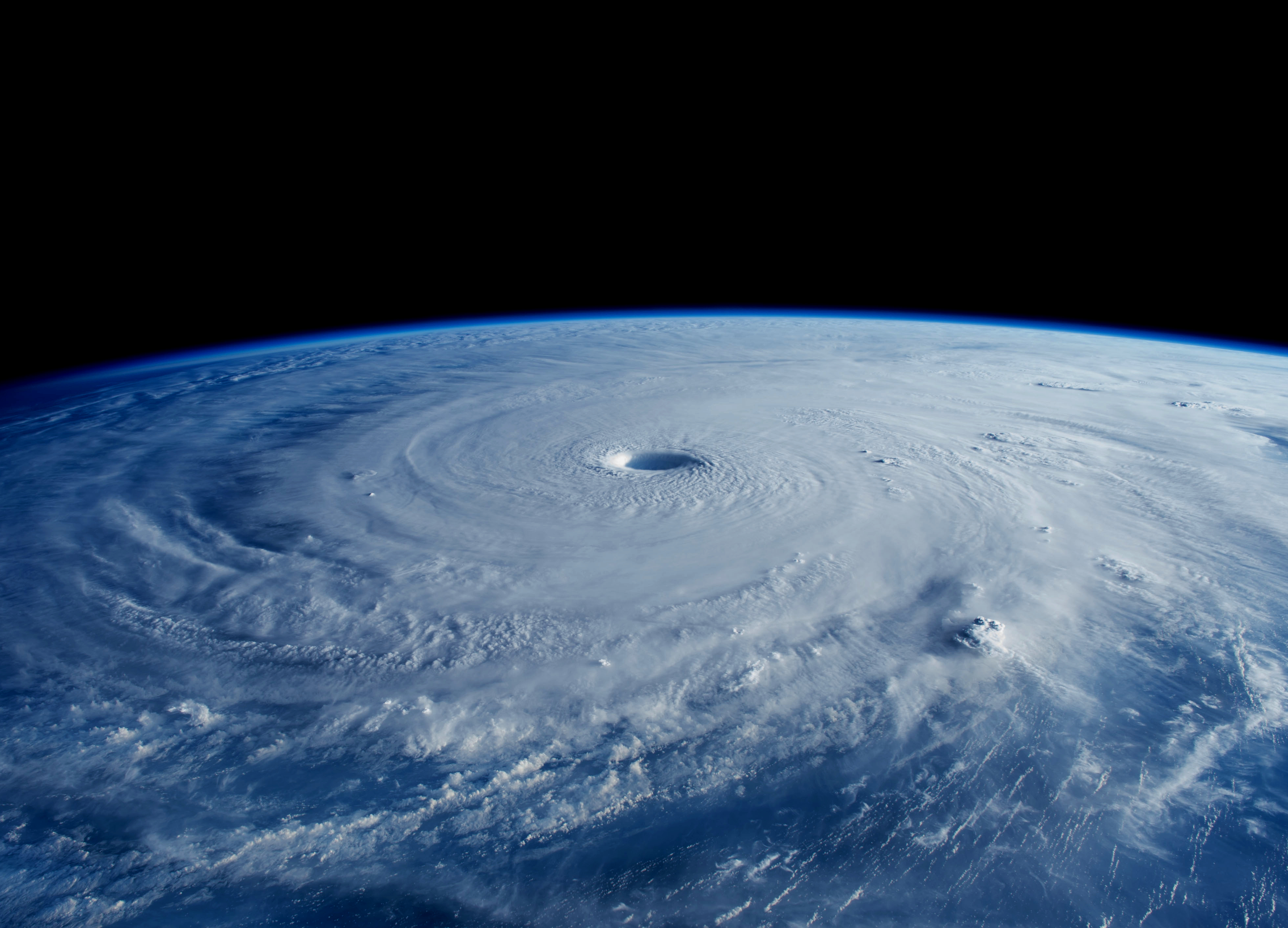 Typhoon Maysak seen from the International Space Station at 21:18:54 UTC on March 31, 2015.